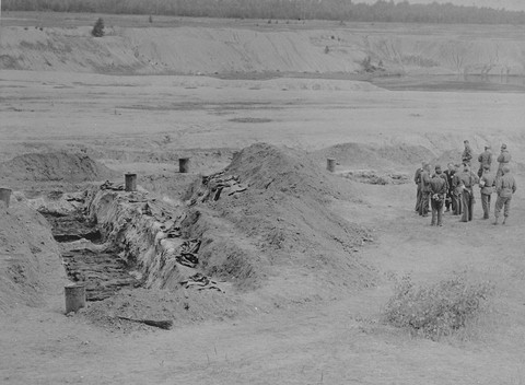 American soldiers stand near a recently exhumed mass grave in Berga-Elster, a sub-camp of Buchenwald.